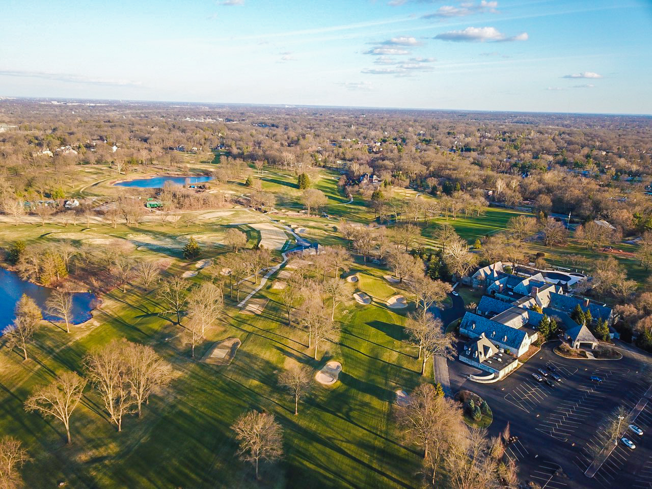 Westwood Country Club, 2018